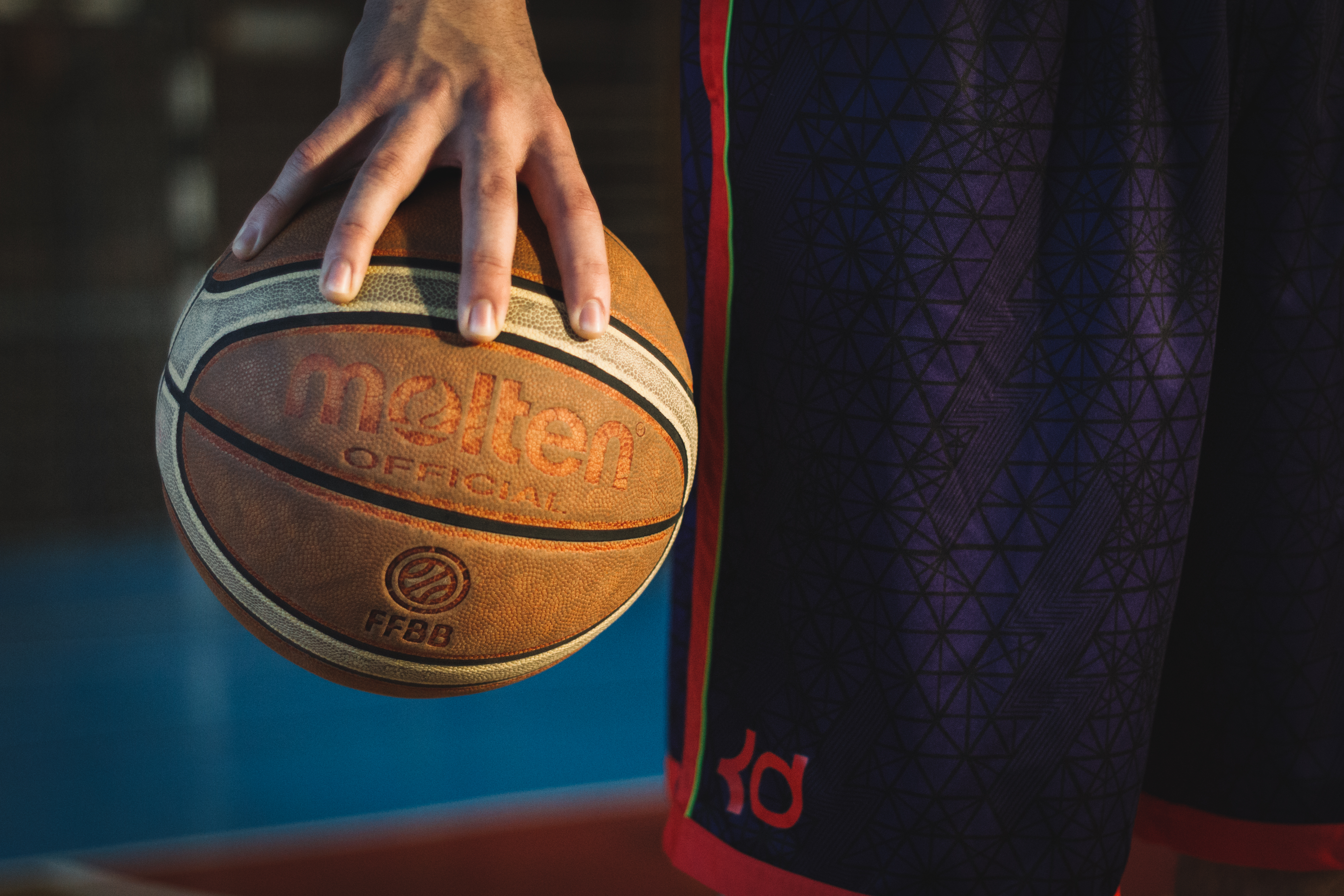 Bosnia and Herzegovina